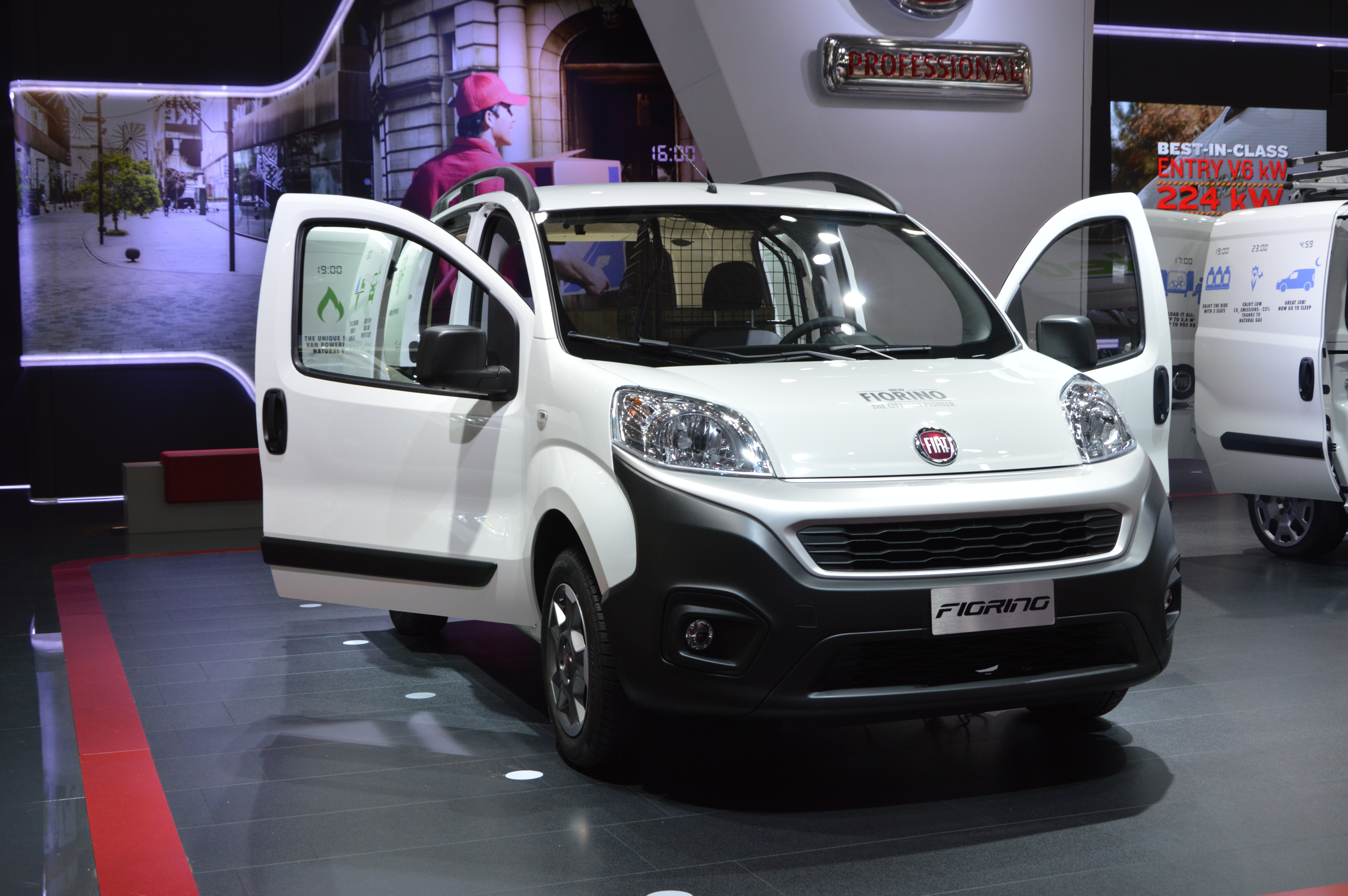 Fiat Fiorino (Modell 2016) Kastenwagen. Photo taken at IAA 2016